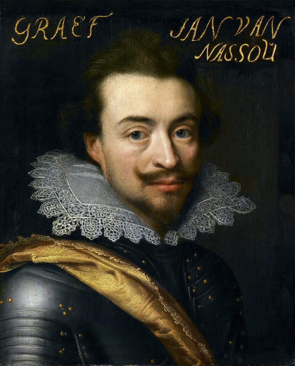 Portrait of VIII (1583-1638), Count of Nassau-Siegen. Part of the Leeuwarden series, a series of portraits of military officials from the Eighty Years' War as well as members of the House of Orange-Nassau, first documented in 1633 in the Stadhouderlijk Hof (Stadholder's Court) in Leeuwarden (see Object history).